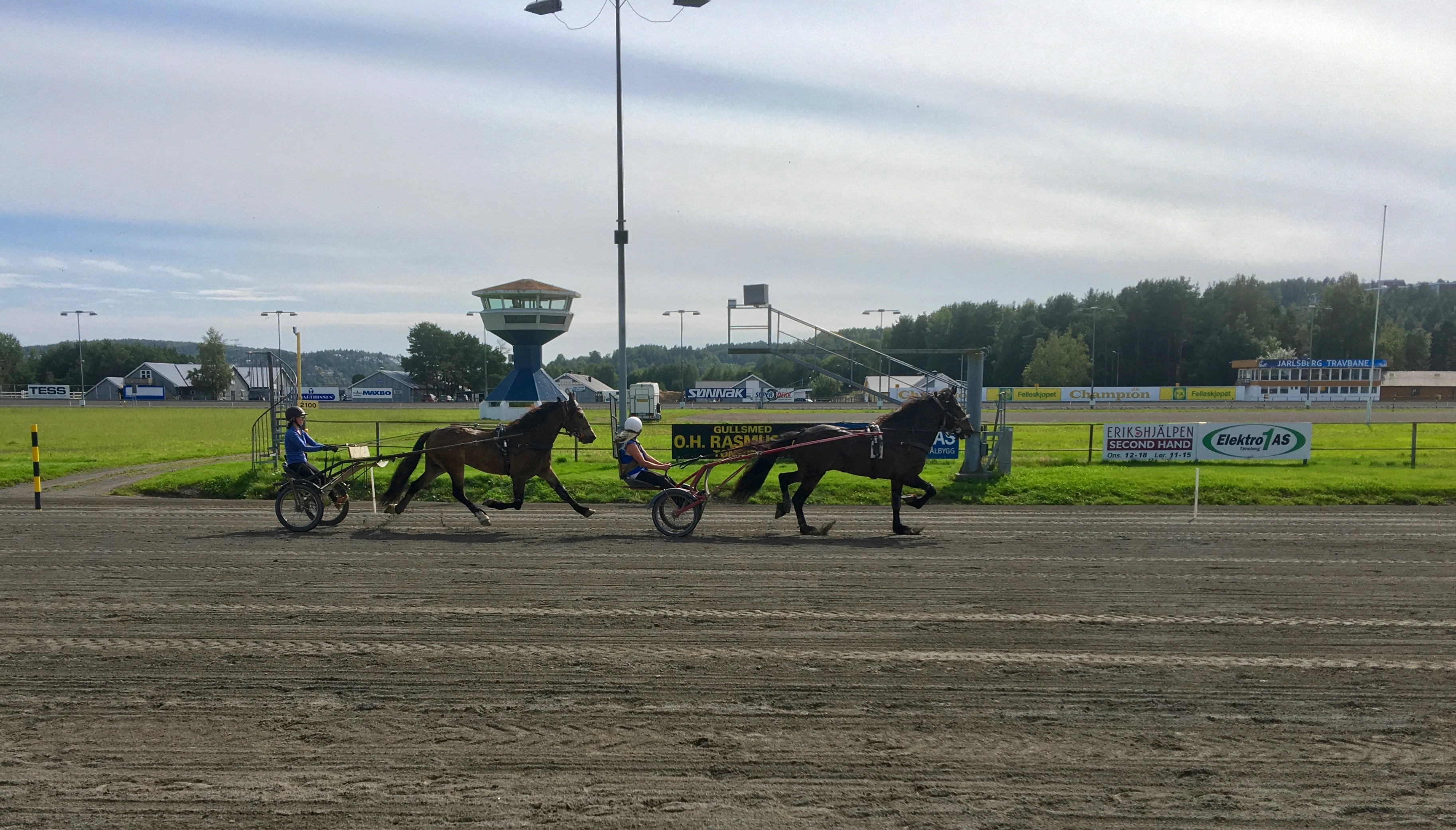 Jarlsberg Travbane, a harness racing track in Tønsberg, Norway. Photo: August 2017.